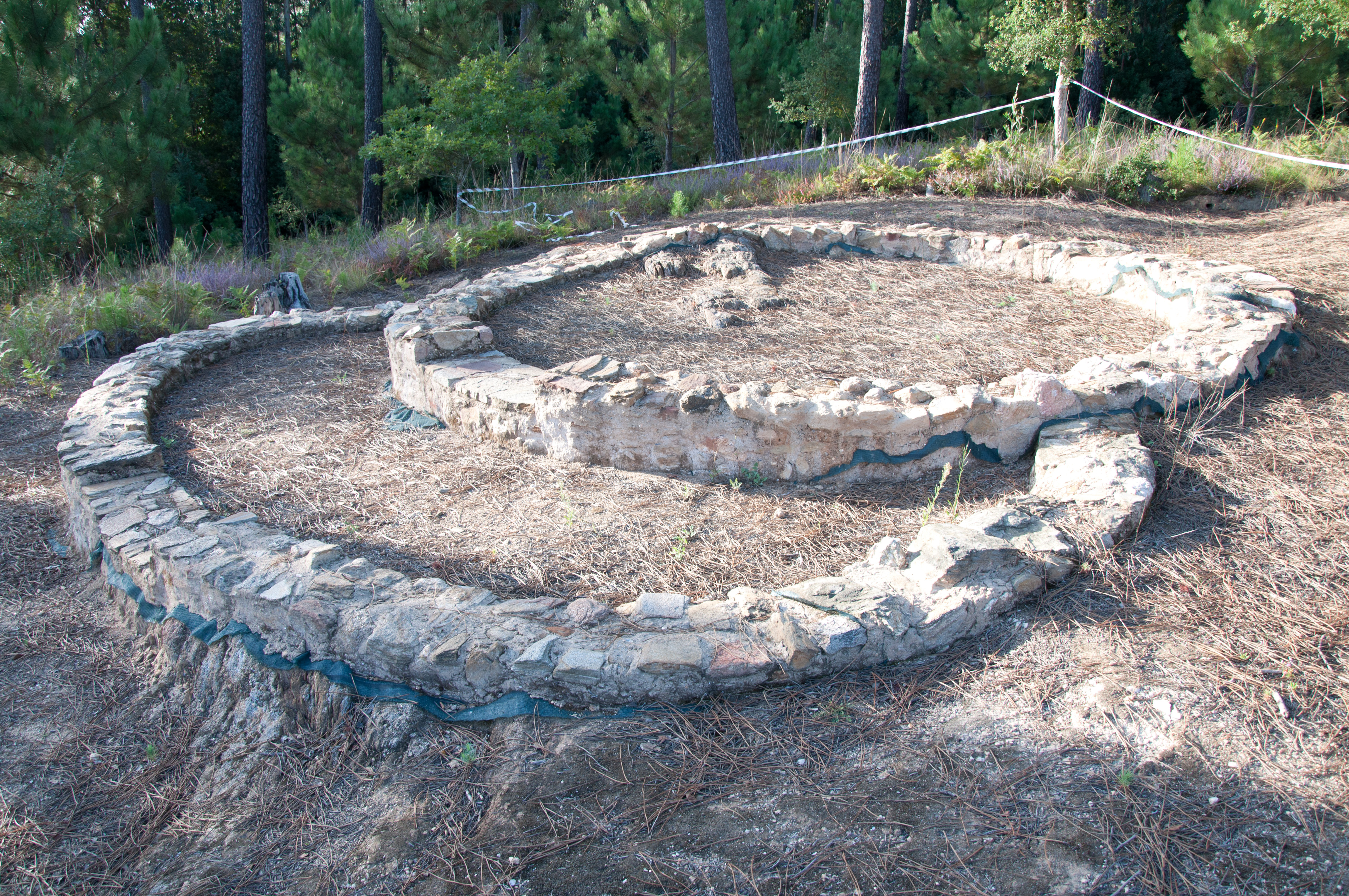 This file was uploaded for Wiki Loves Monuments in Portugal with the unique identifier 71009.